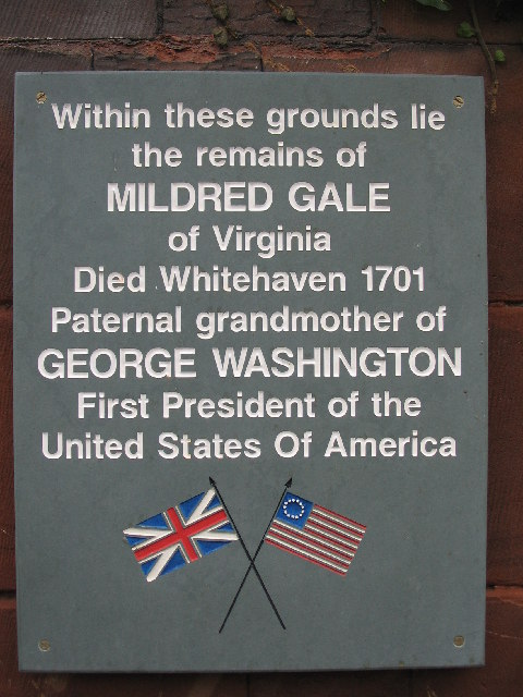 Detail of memorial plaque. A detail view of the plaque at St. Nicholas Tower Chapel gardens.